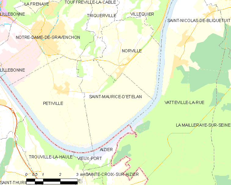 Map of French municipality Saint-Maurice-d'Ételan